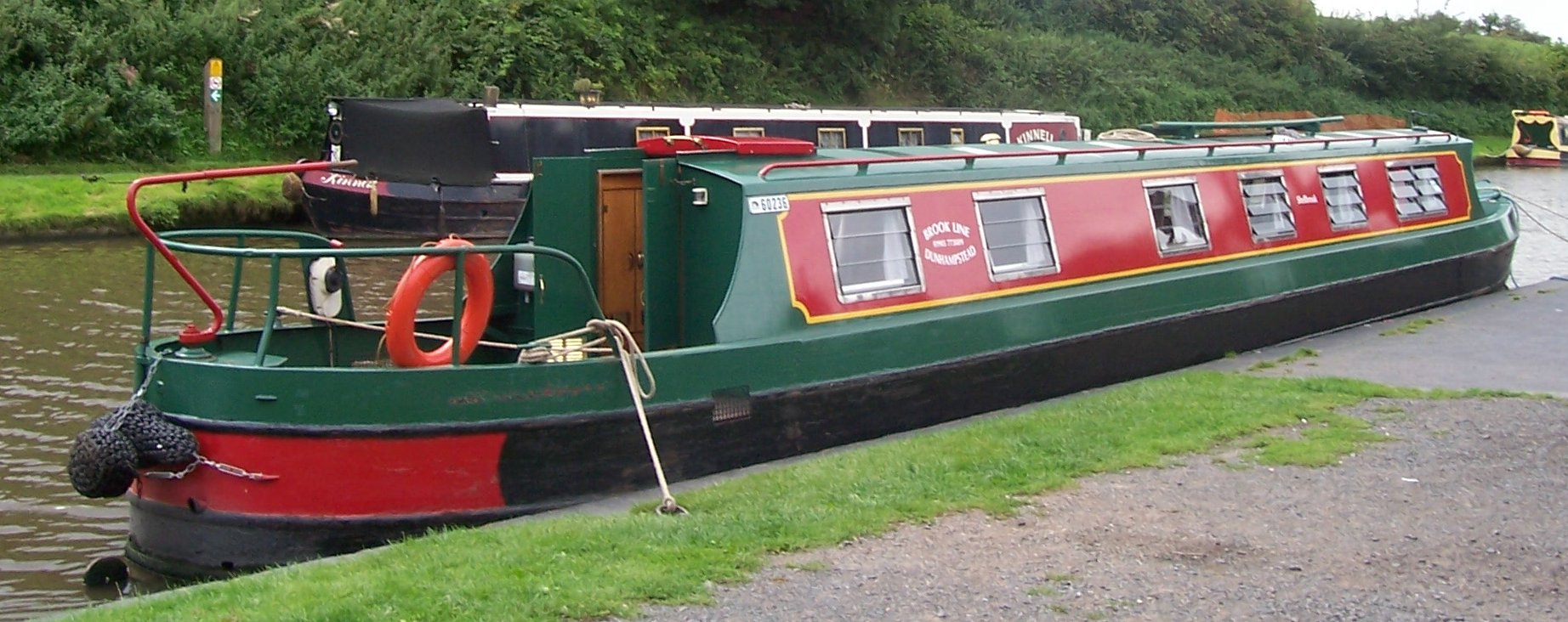 Narrowboats moored up near Tardebigge, England.